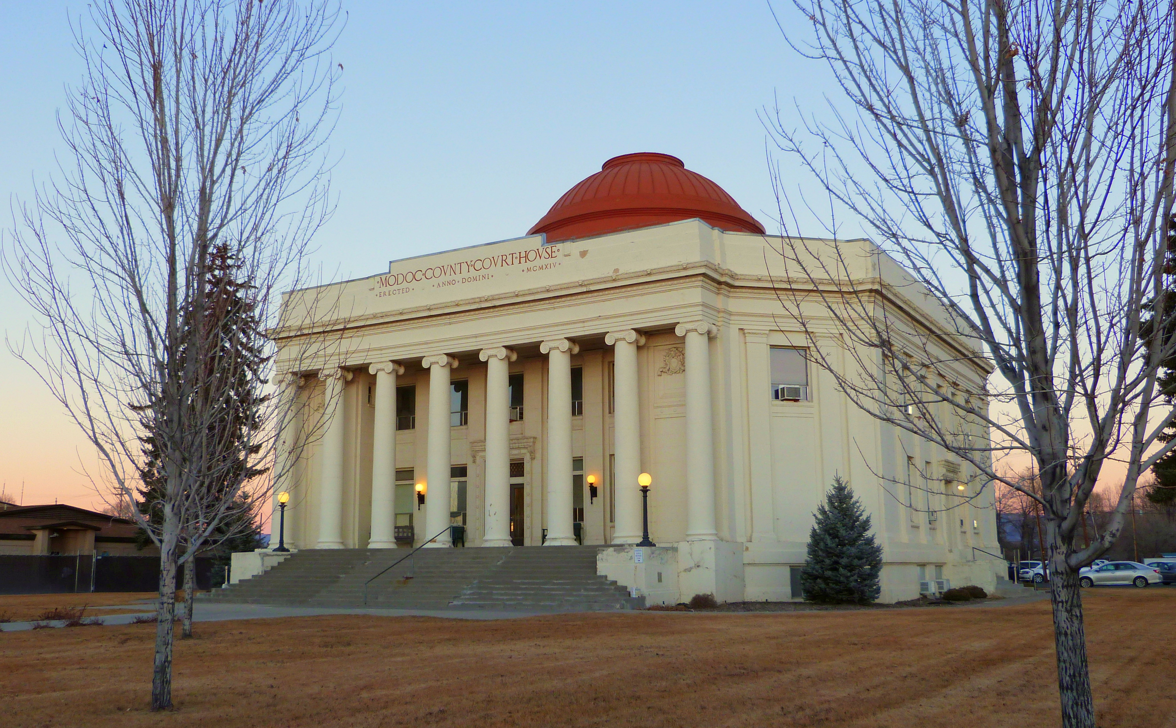 The Modoc County Courthouse in Alturas, California, United States.